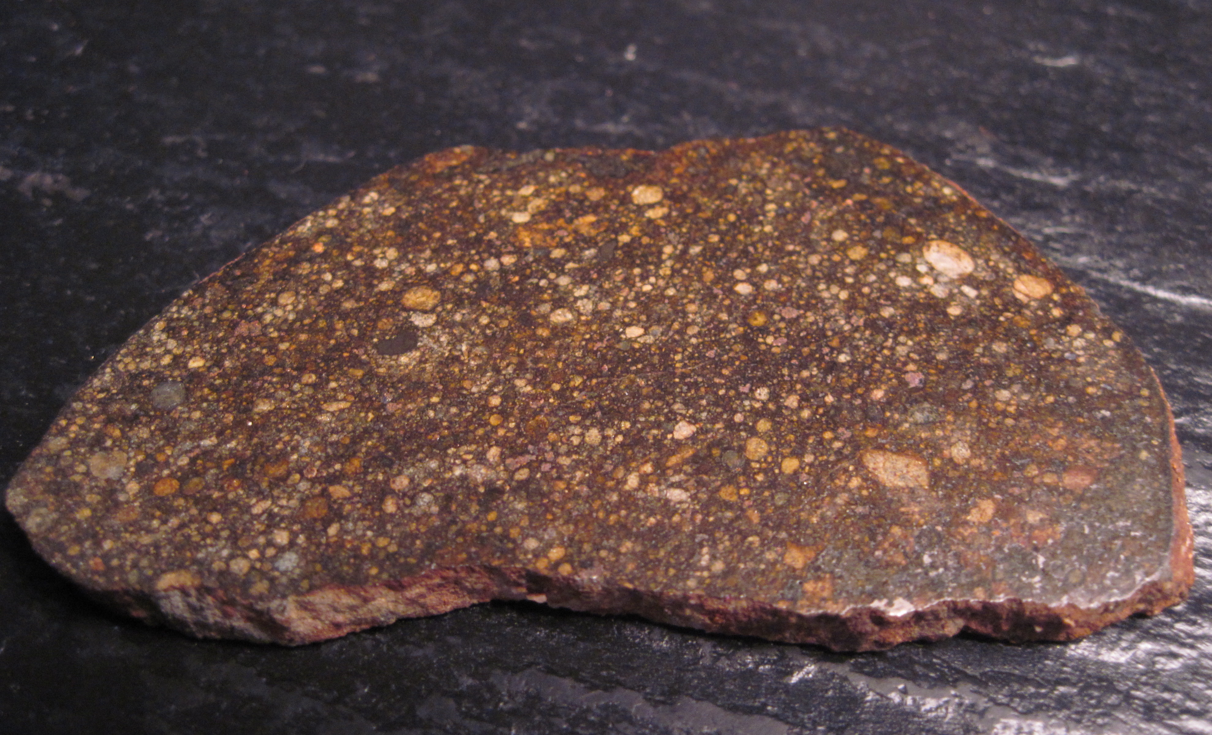 This is a nice 34 gram polished slice of the SaU 001 L 4/5 chondrite discovered in Oman in 2000.